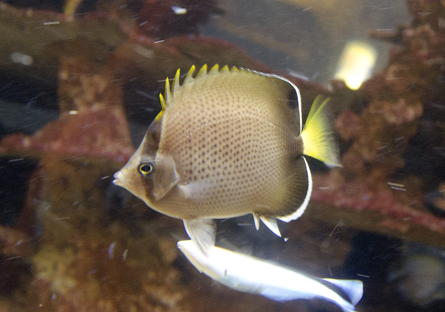 Chaetodon dolosus in the UShaka Marine World Durban